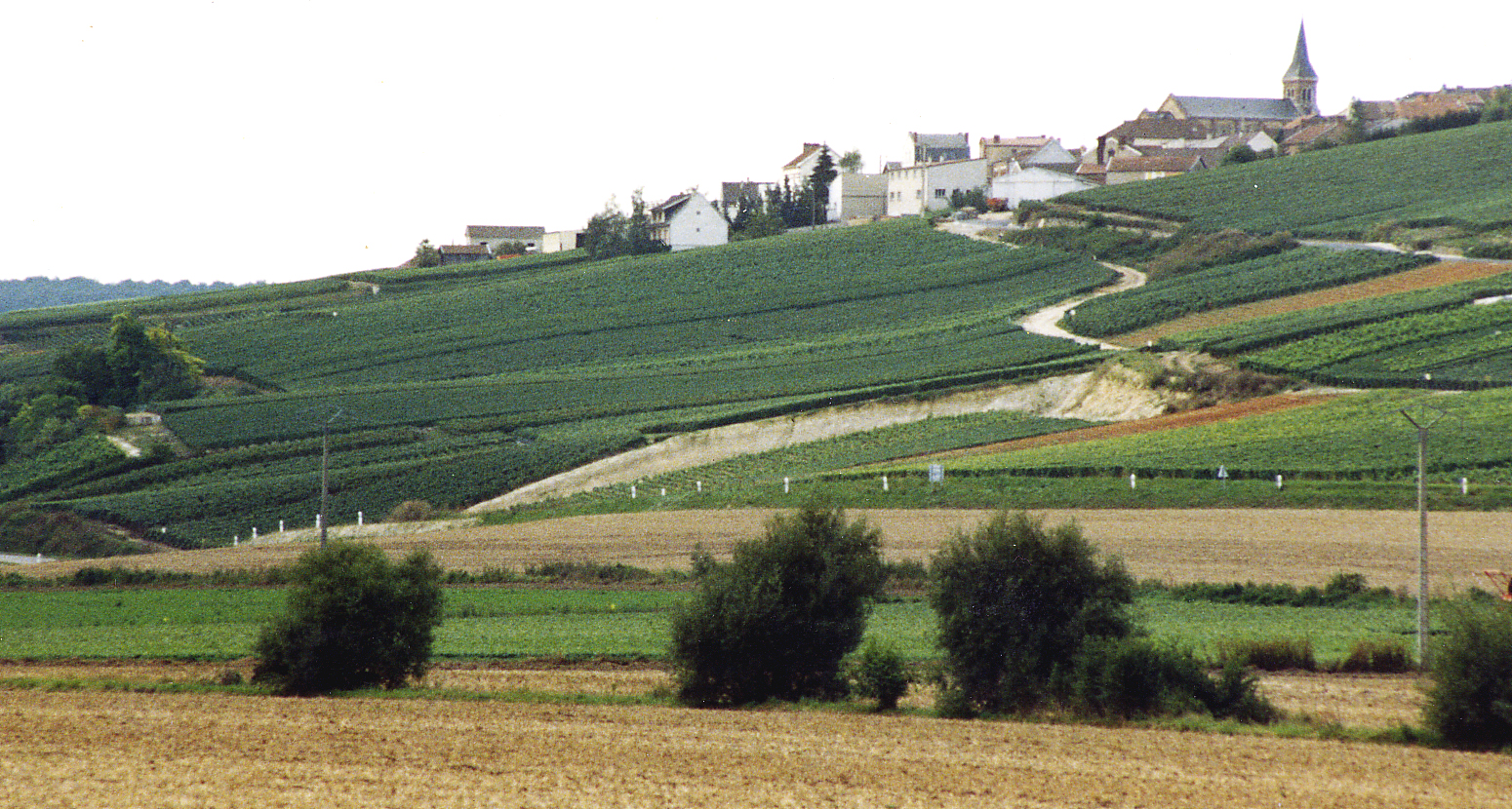 Vineyards in the Champagne wine region of France.